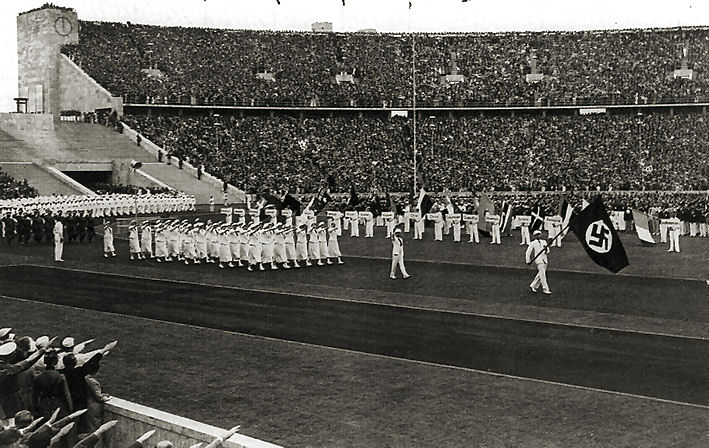 Team of Germany in the opening ceremony of Berlin Olympics.